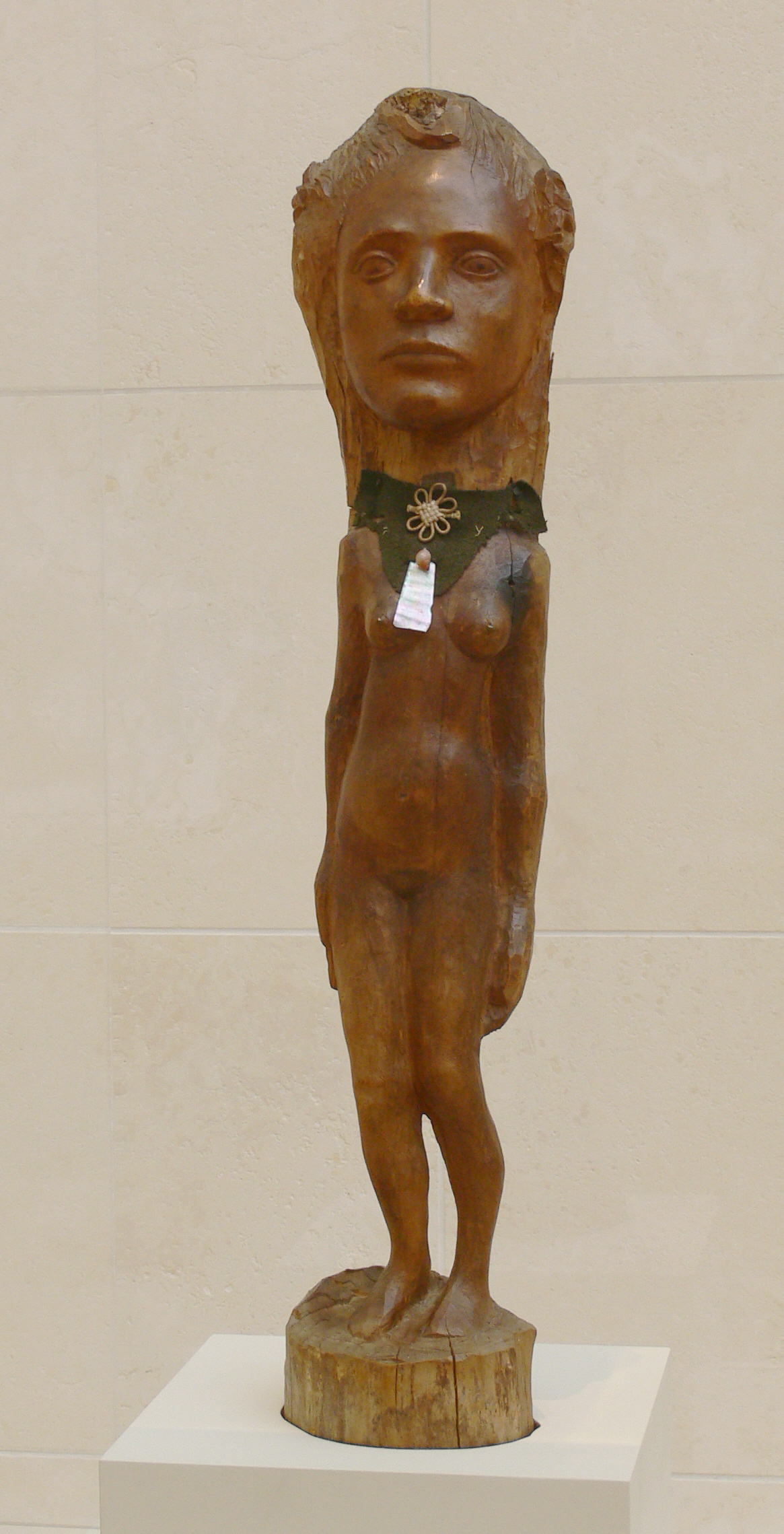 Paul Gauguin: Tahitian Girl, carved wood and mixed media, c. 1896; Nasher Sculpture Center, Dallas, Texas (Raymond and Patsy Nasher Collection, acquired in 1987)